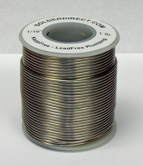 Lead Free, Cadmium Free Multipurpose Solder.